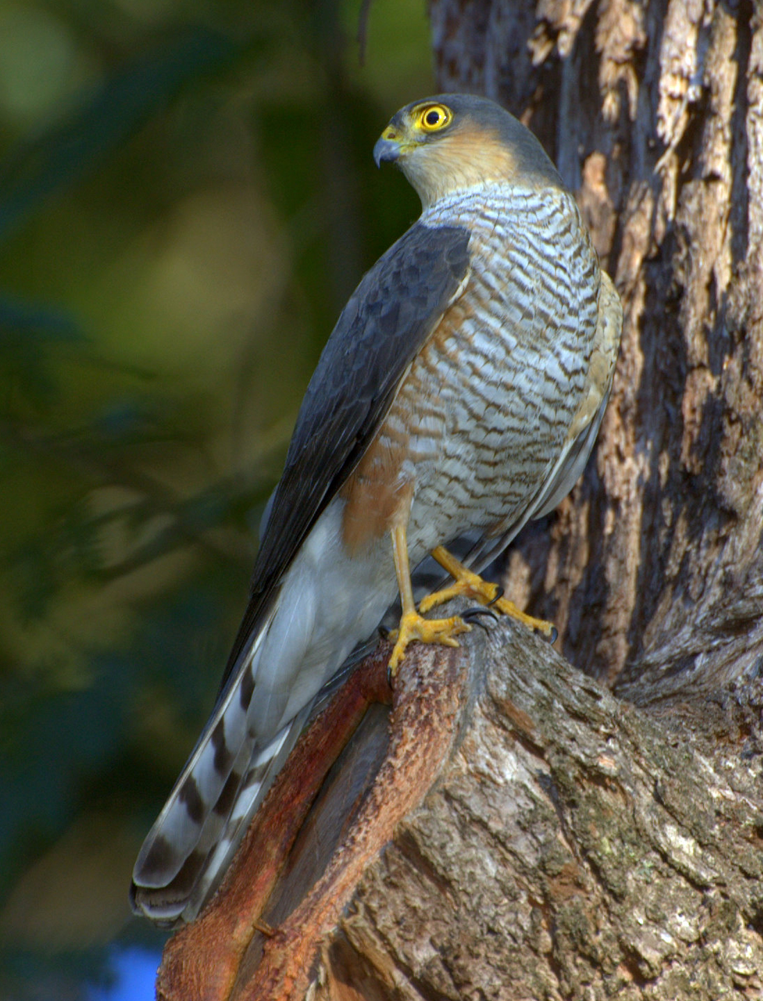 Rufous-thighed Hawk Accipiter erythronemius, Horto Florestal de Sao Paulo, Brazil